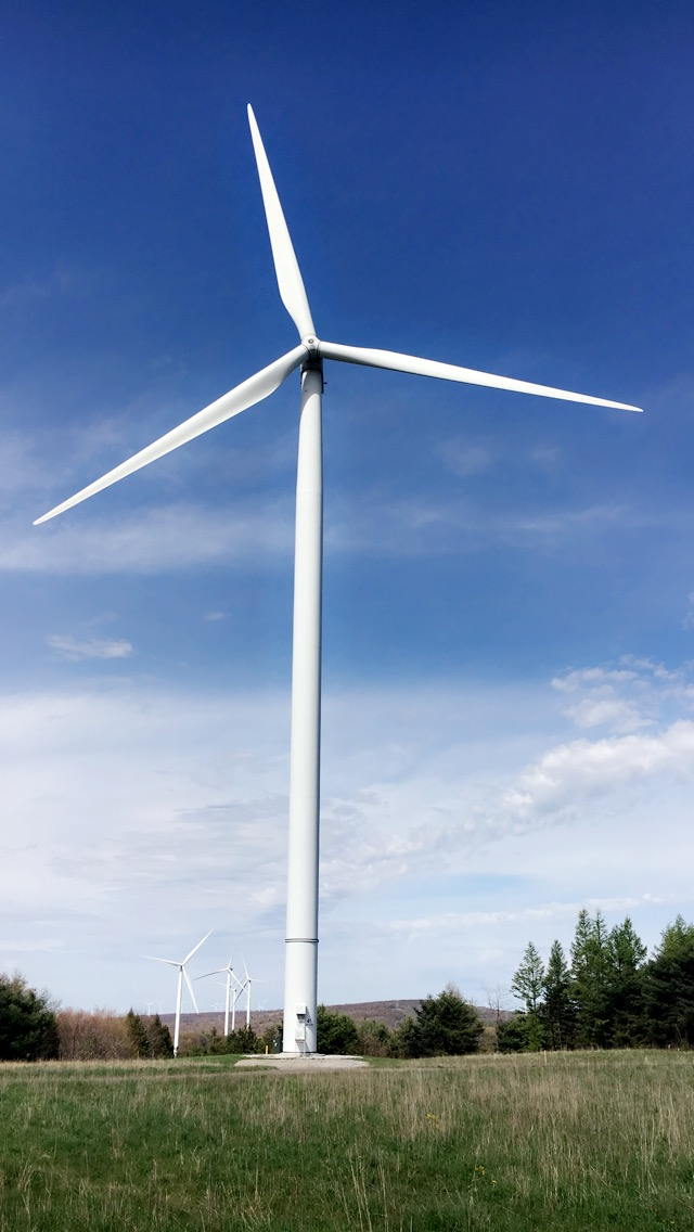 Nordex N100 turbines at the Highland North Wind Farm in Cambria County, PA, installed in 2012.